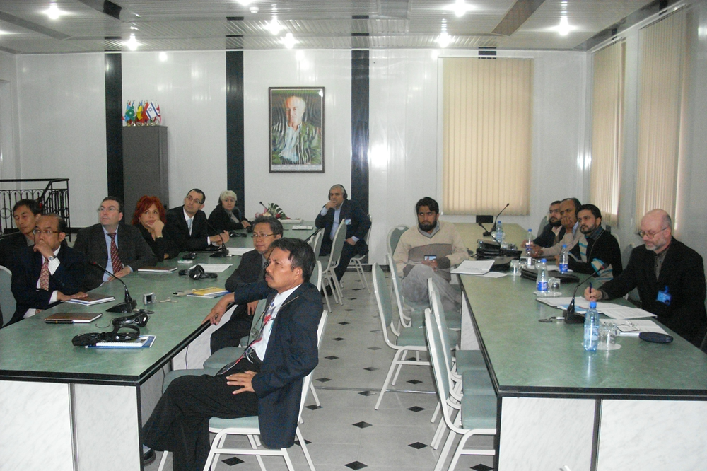 scientific seminar of GNFE